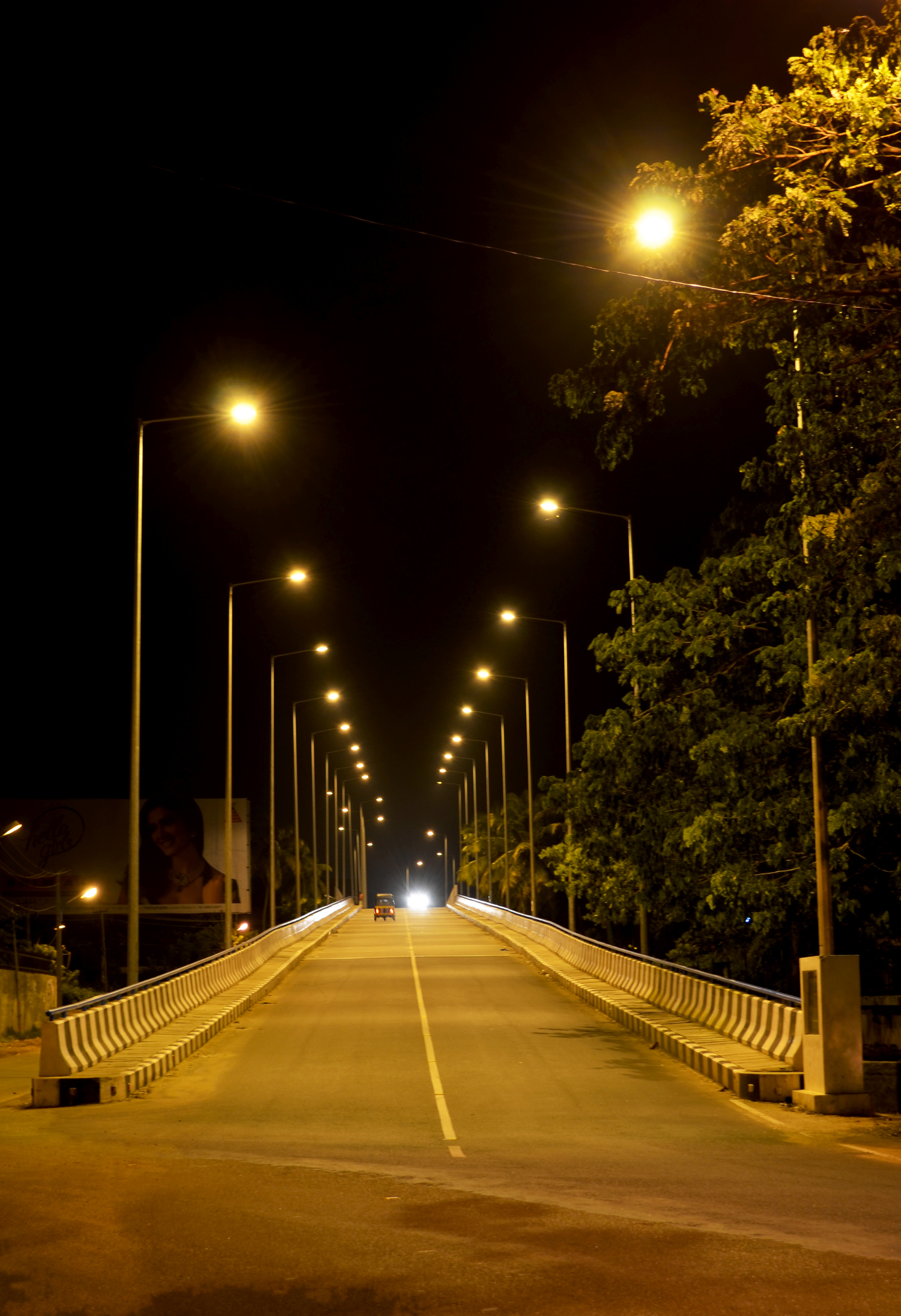 The newly built Railway Over Bridge Ernakulam (Salim Rajan Over Bridge)